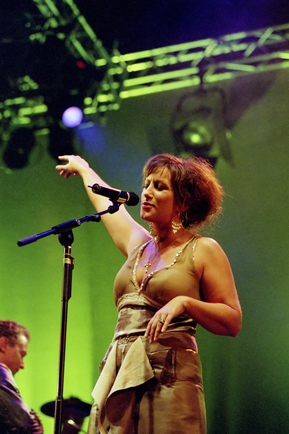 Singer Lisa Nilsson performing in Malmö 2004